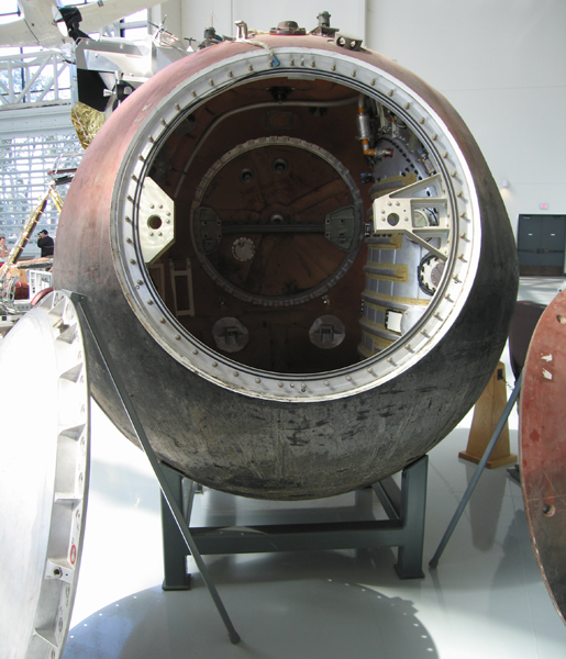 Photograph of the Kozlov Foton 6 on display at the Evergreen Aviation Museum in McMinnville, Oregon. Taken on August 19, 2006 by Parodygm 17:43, 26 March 2007 (UTC)